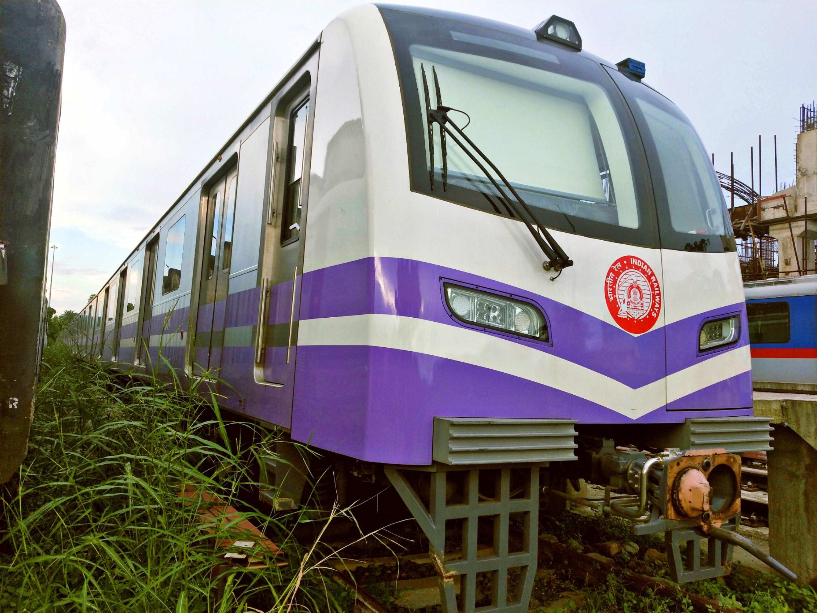 Kolkata Metro CRRC Dalian rake at Noapara depot